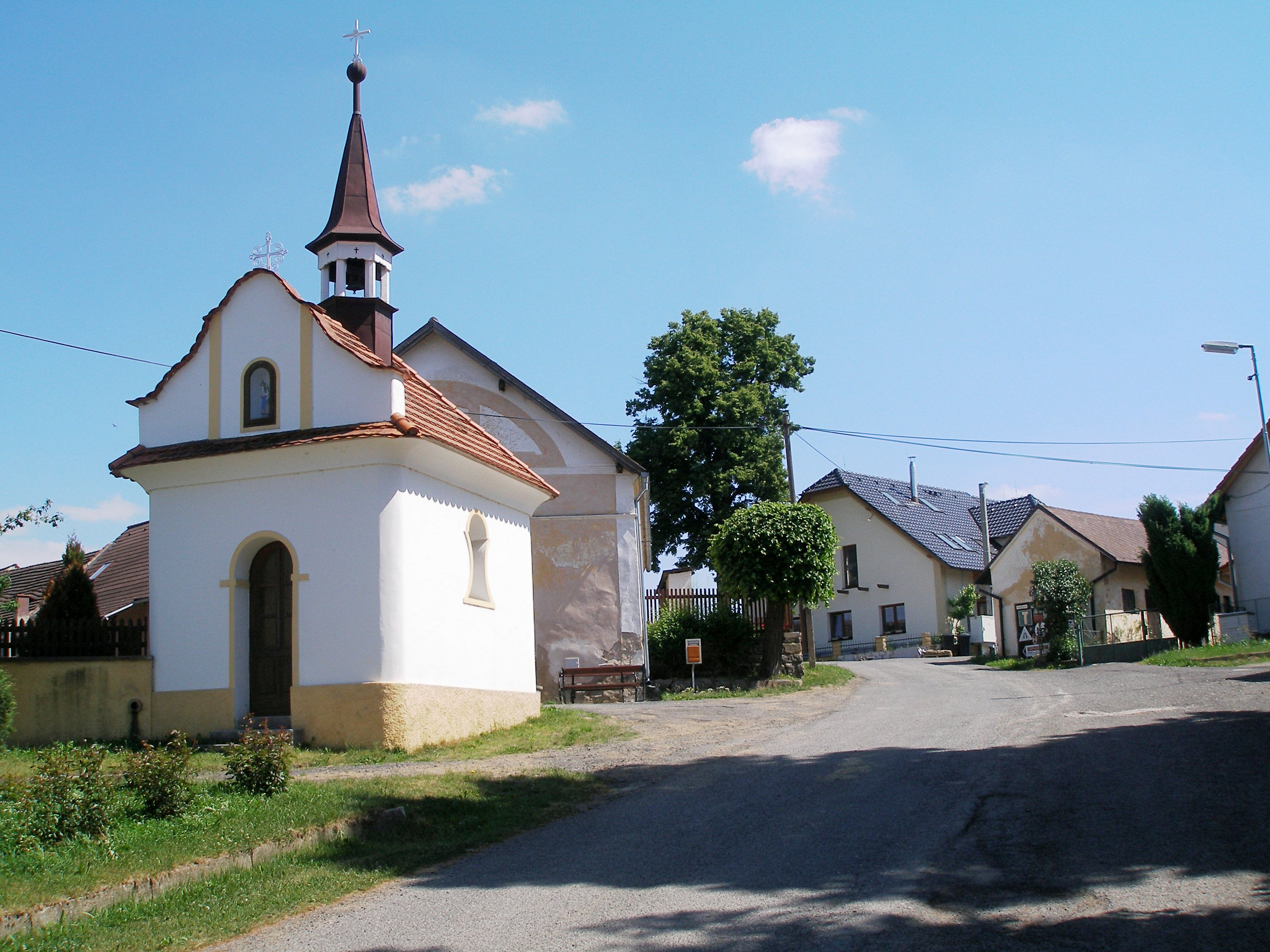 Řiště - the centre of the village with the chapel